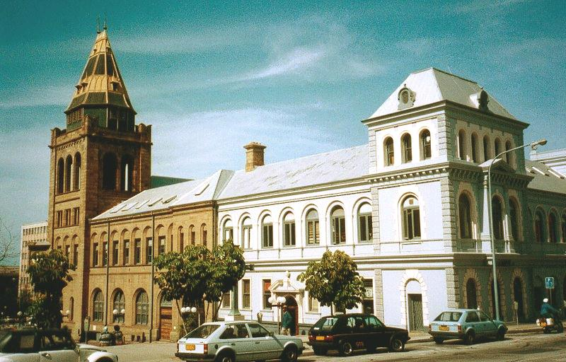 City center of Port Elizabeth